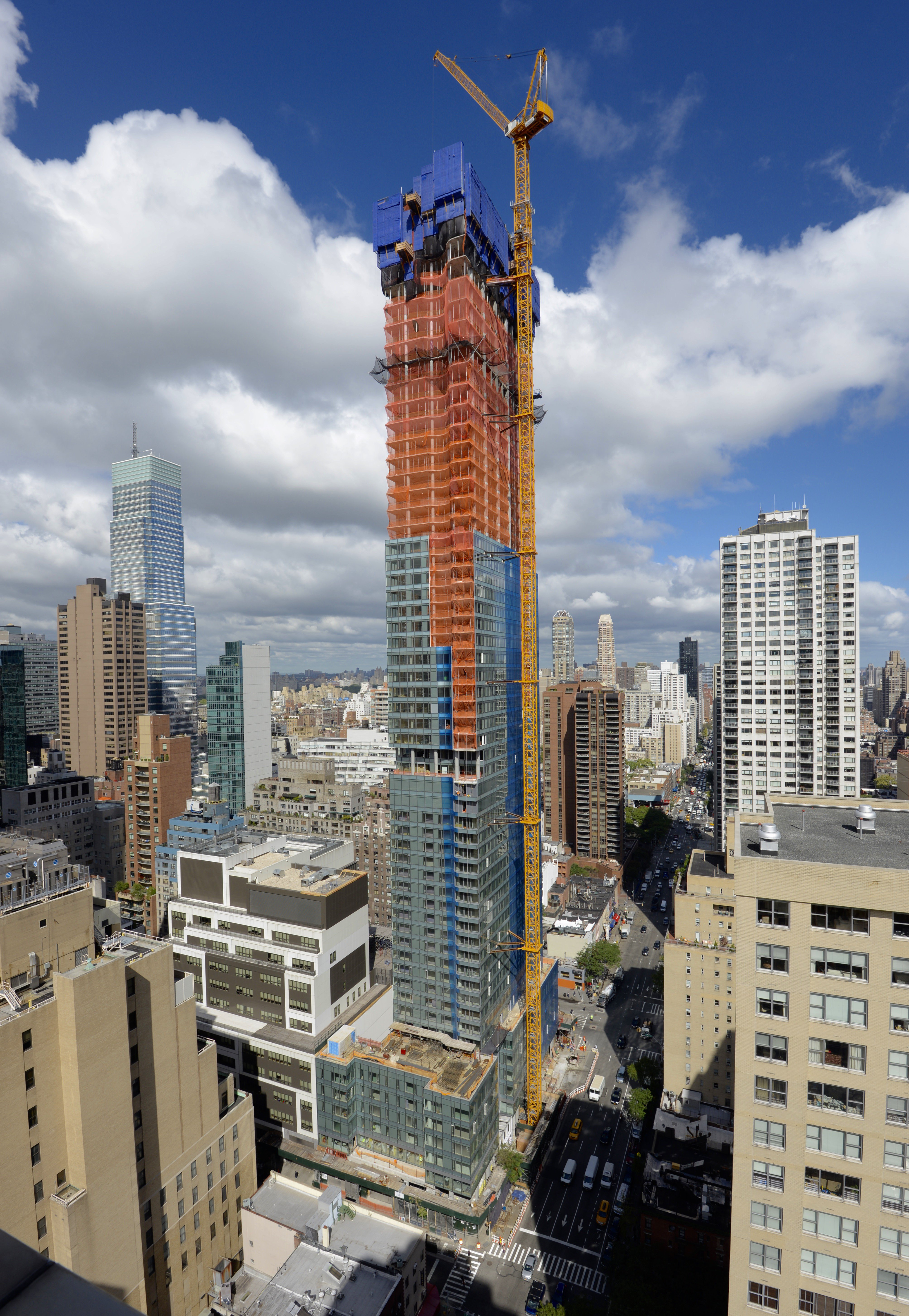 252 in late 2015